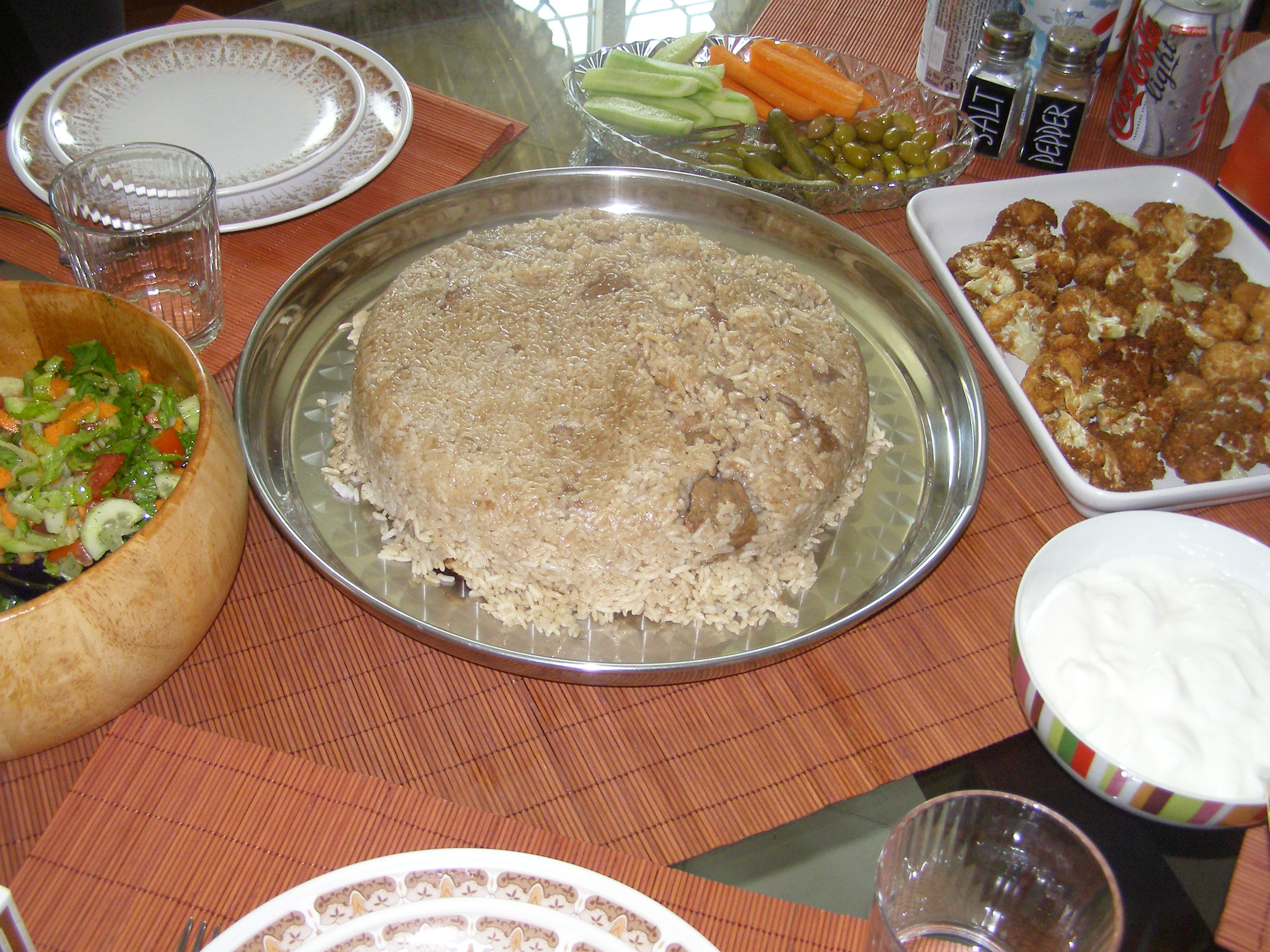 Maqloubeh, with Yogurt and Salad